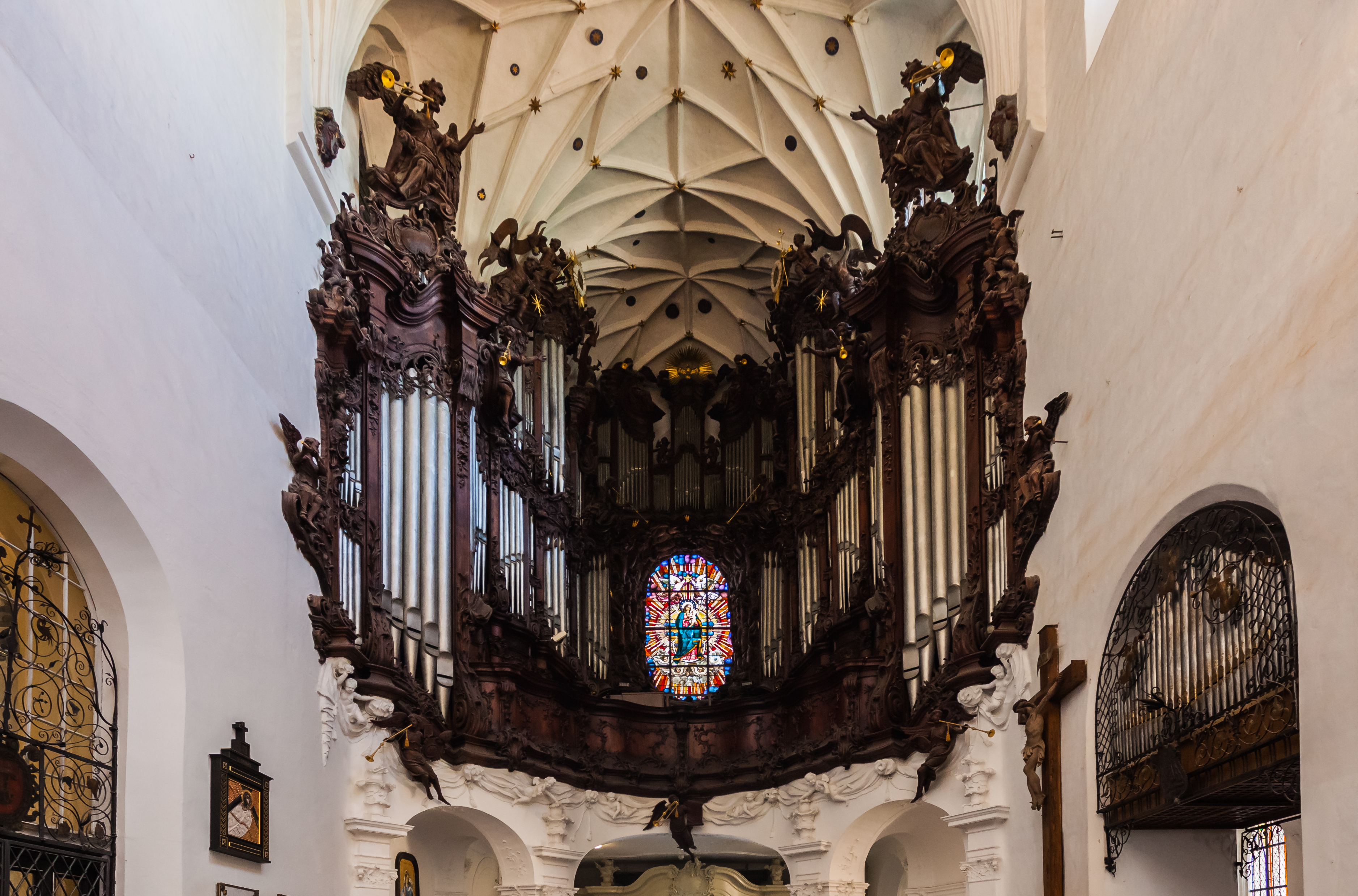 Oliwa Cathedral, Gdansk, Poland